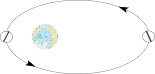 diagram explaining Longitudinal libration.